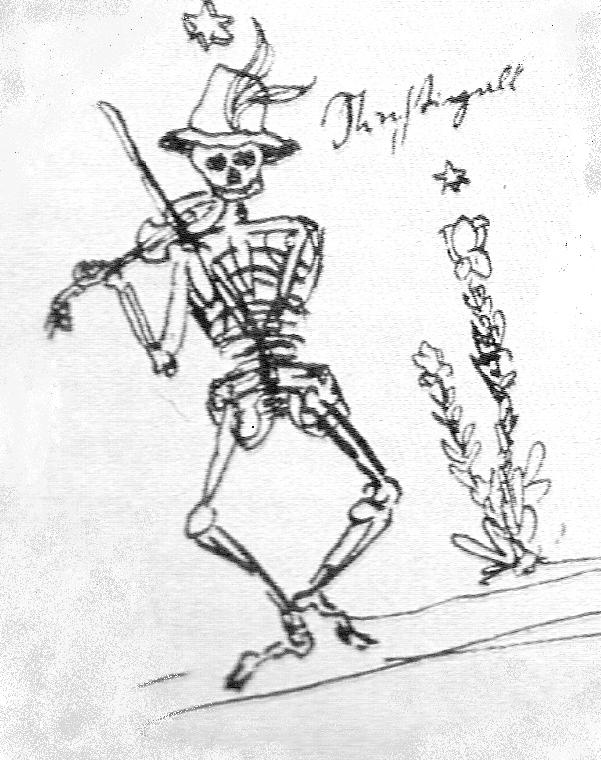 Skeleton playing a violin. Pen drawing on Keller's blotting pad.